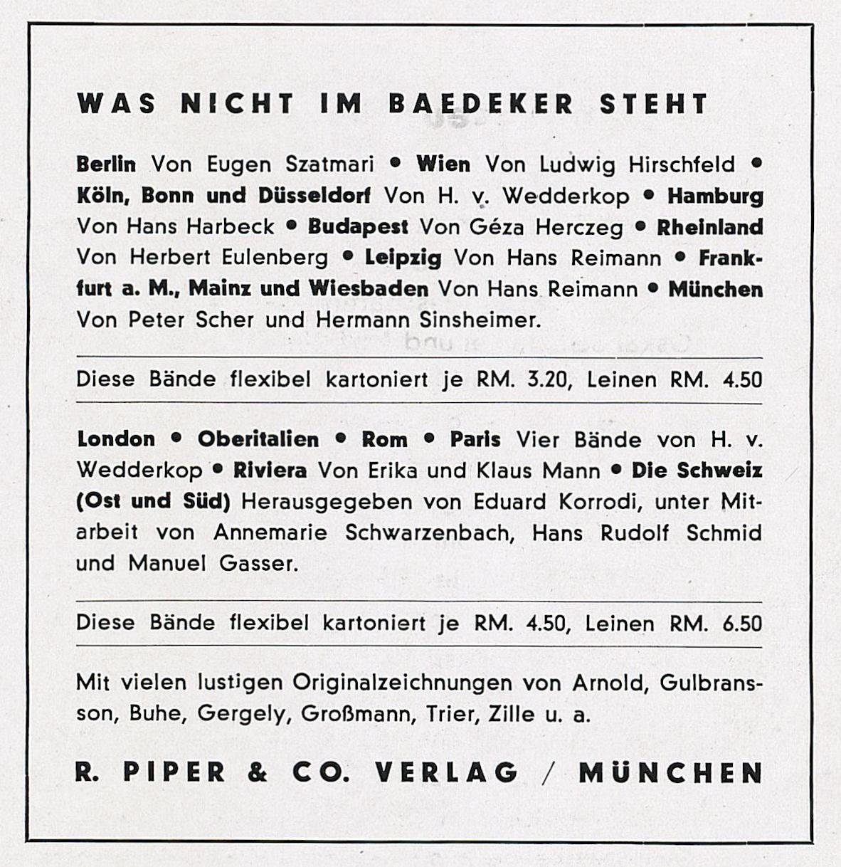 Advert to the Piper's book series: Was nicht im Baedeker steht.